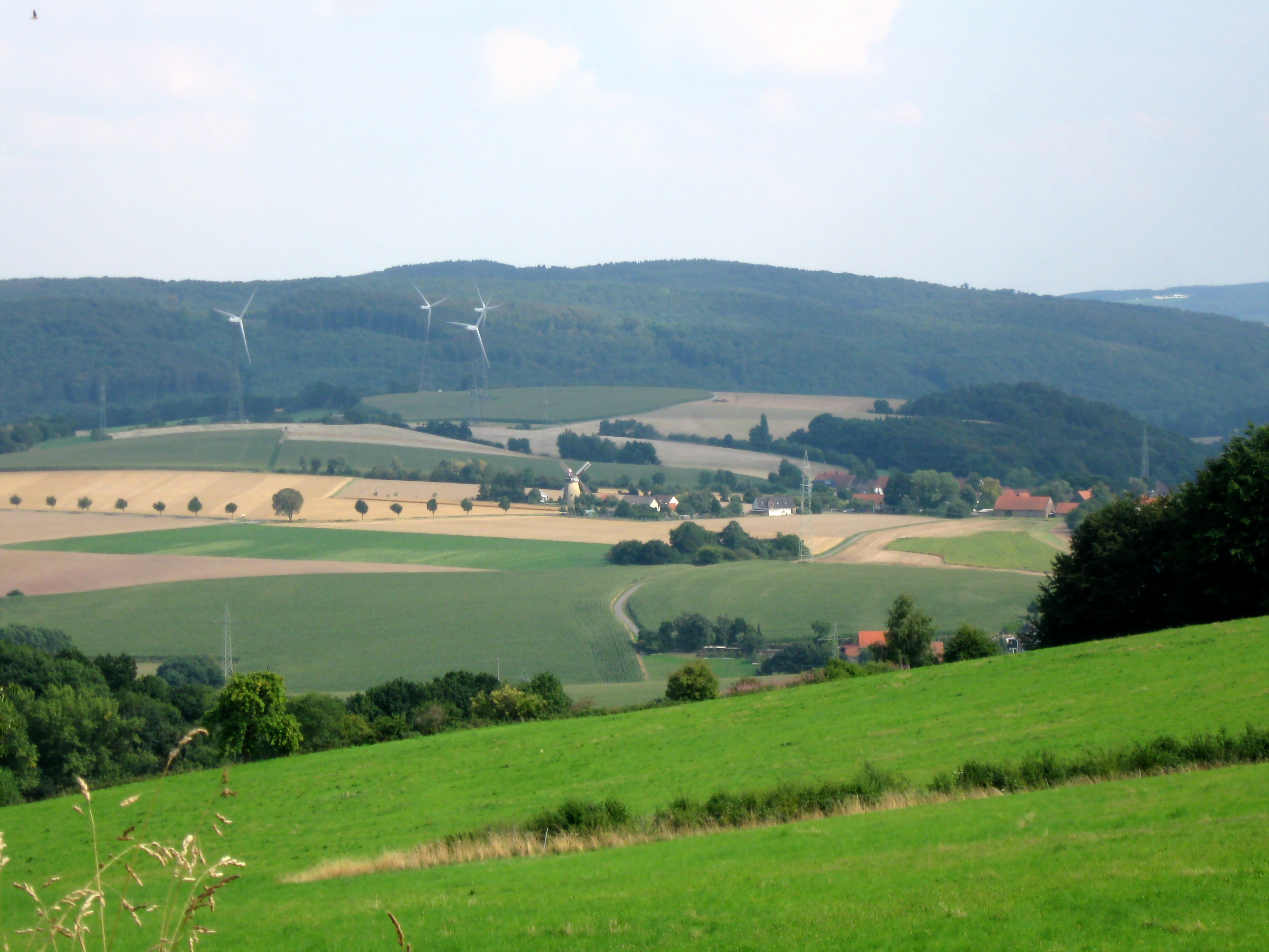 View via Bentorf, the northern district of the town Lippe Kalletal, with windmill and wind turbines